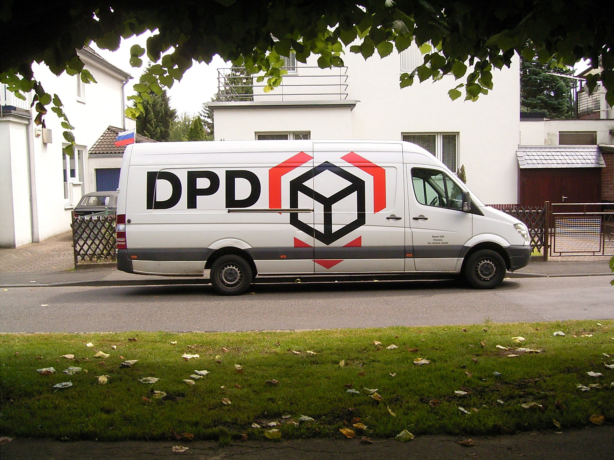 Dynamic Parcel Distribution